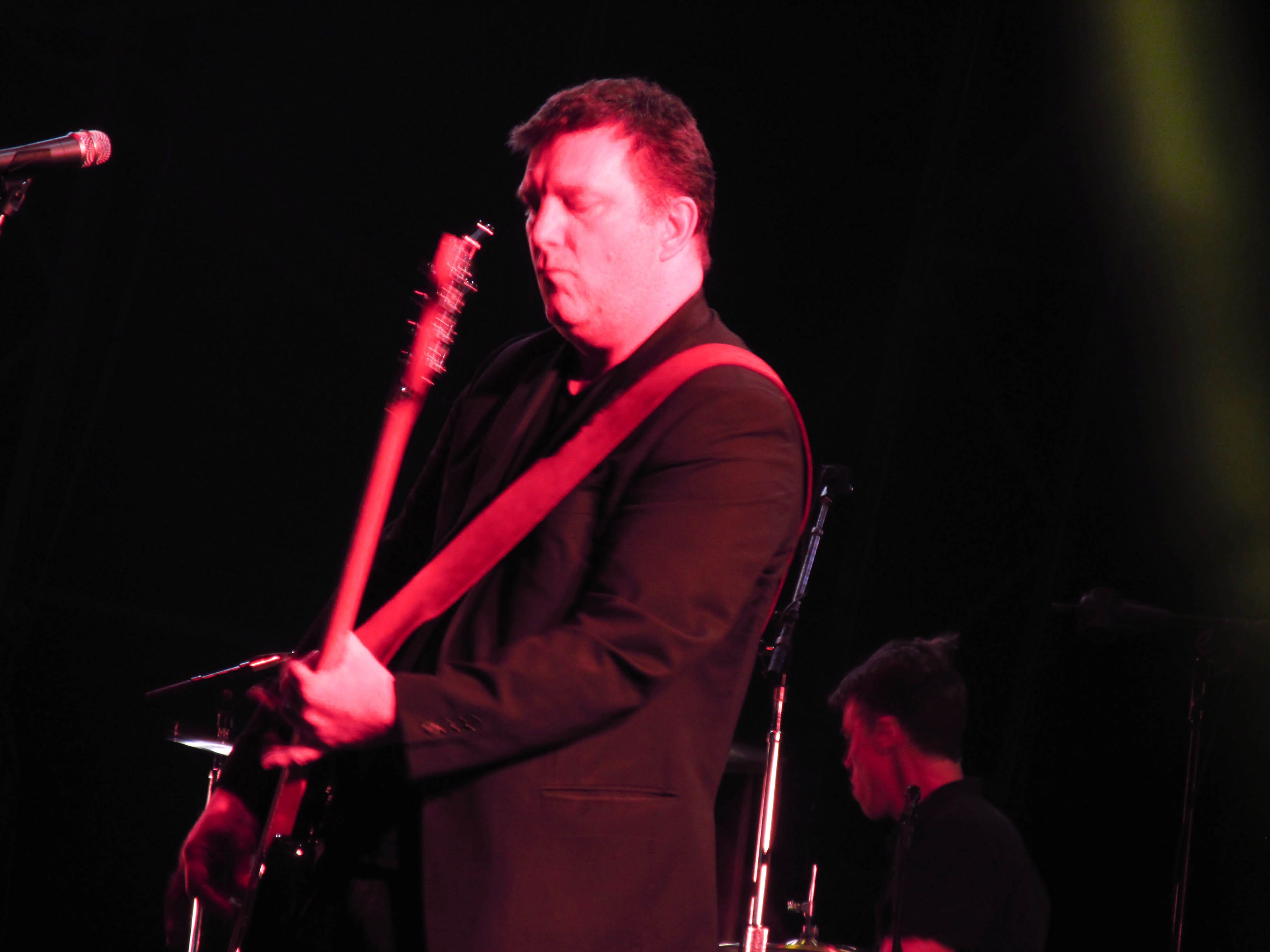 Ben Shepherd (2015)